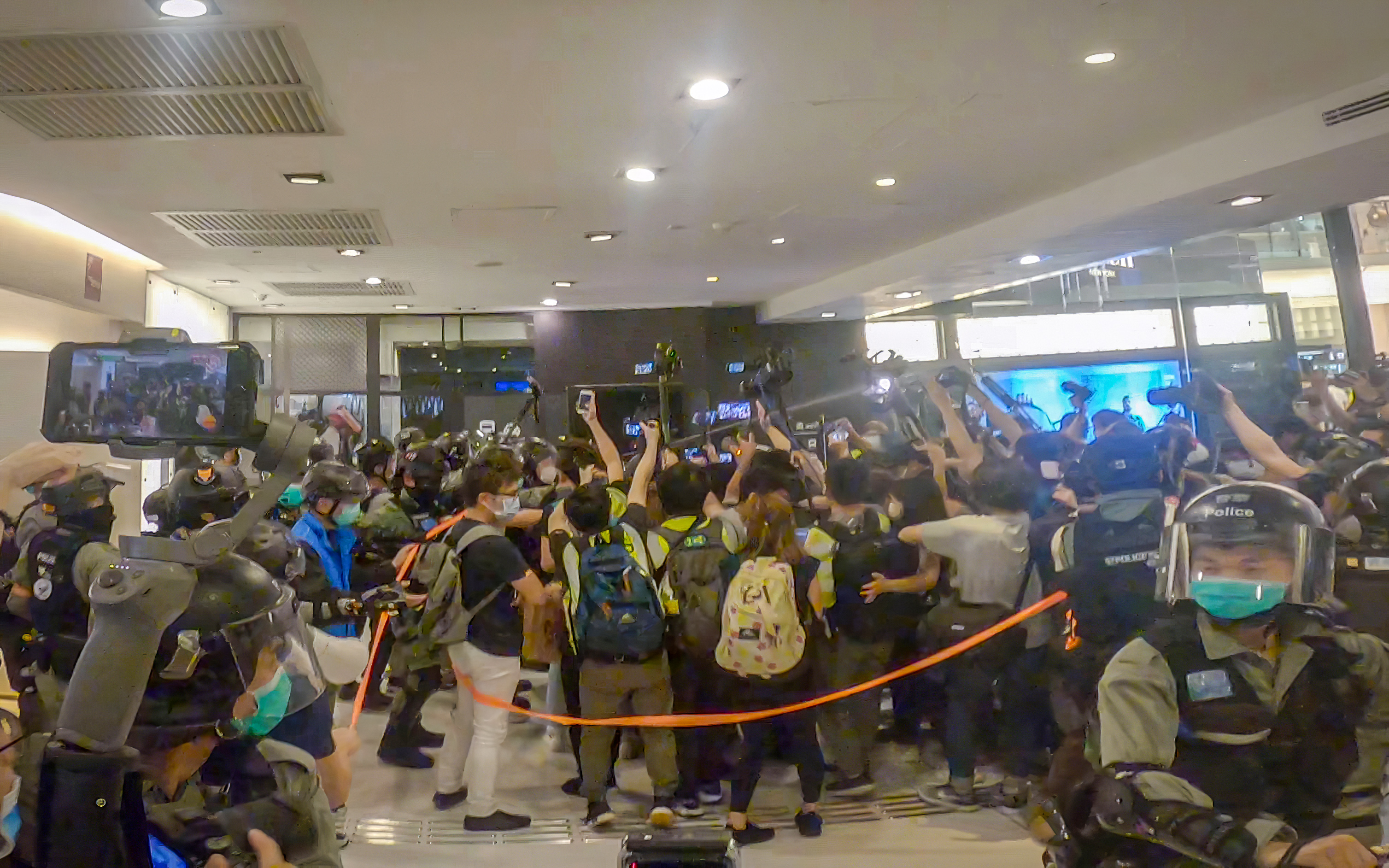 Police peppy sprayed journalists around